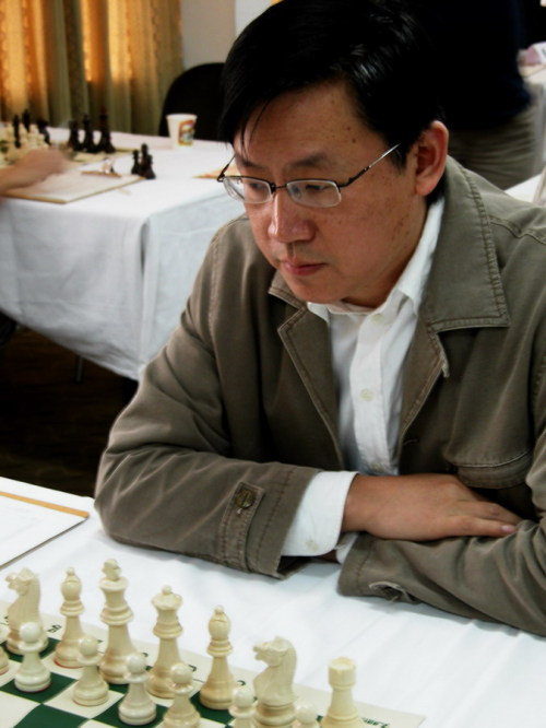 GM Ye Jiangchuan, chess player from China